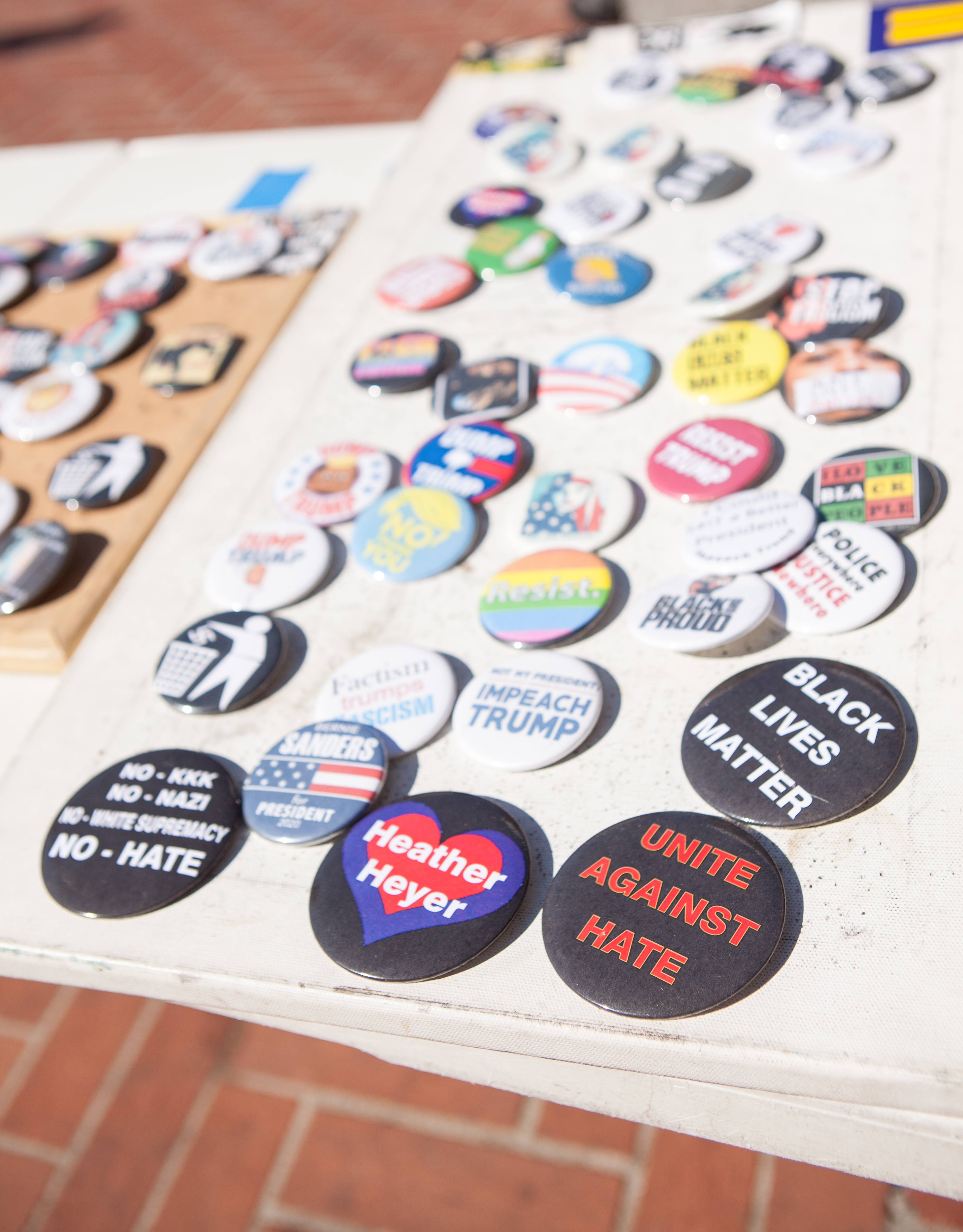 Buttons for sale on a table include "Heather Heyer", "Impeach Trump", "Black Lives Matter", and "Unite Against Hate", on Sproul Plaza at UC Berkeley.